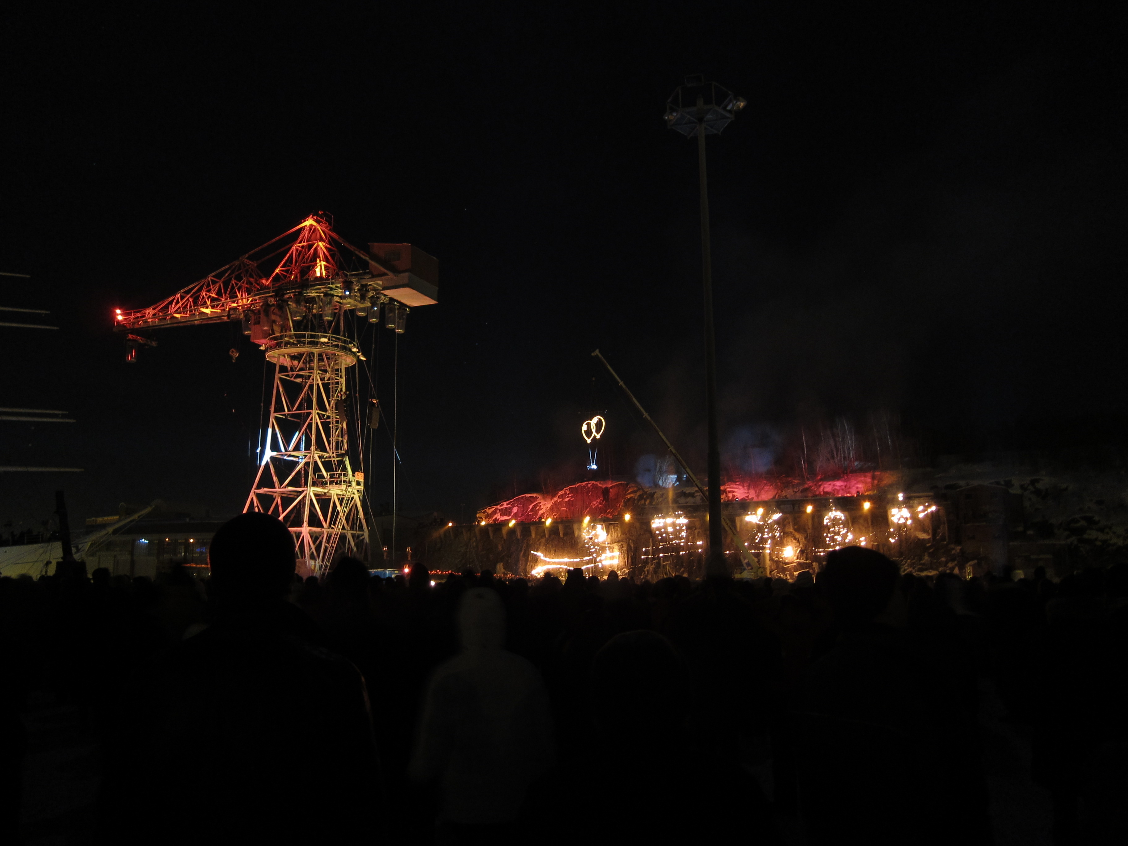 Turku 2011 (Turku European Capital of Culture 2011) opening ceremony This Side, The Other Side in Turku, Finland.